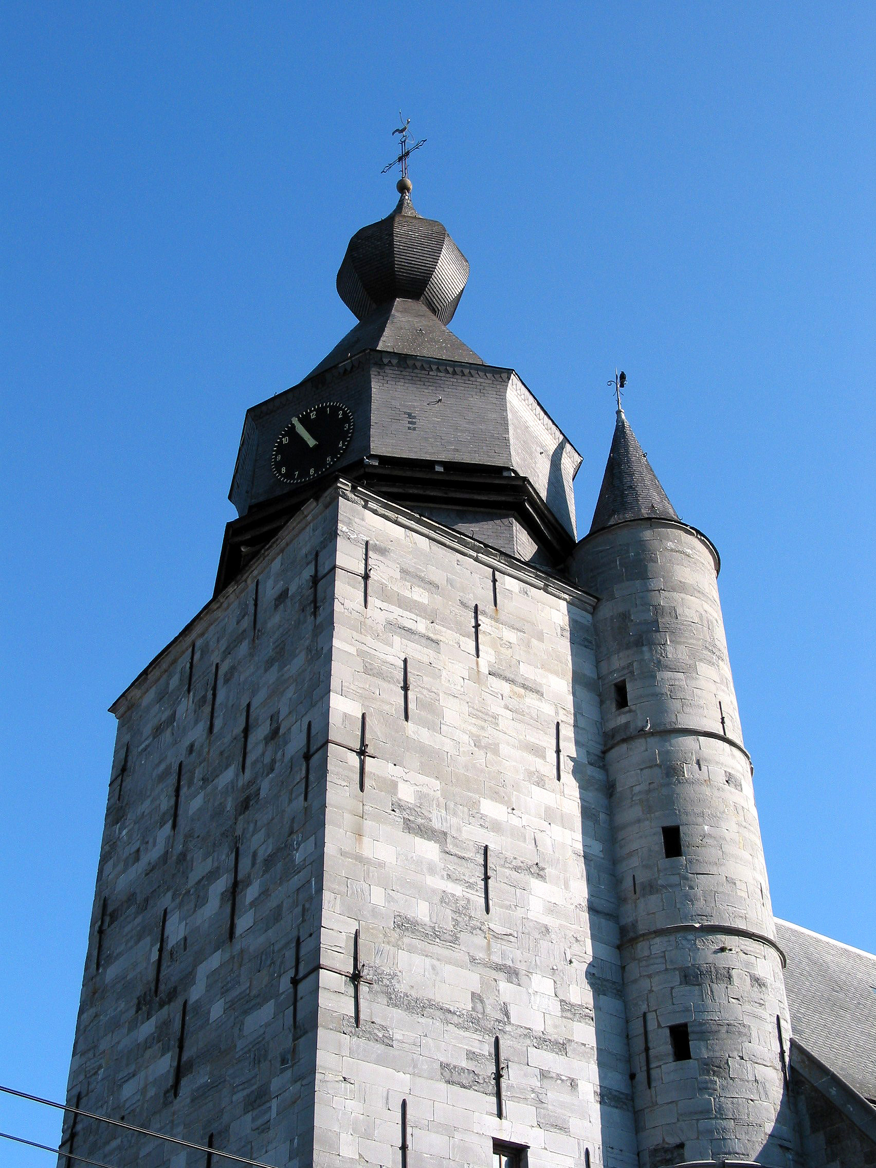 Merbes-le-Château (Belgium), the Saint Martin's church.